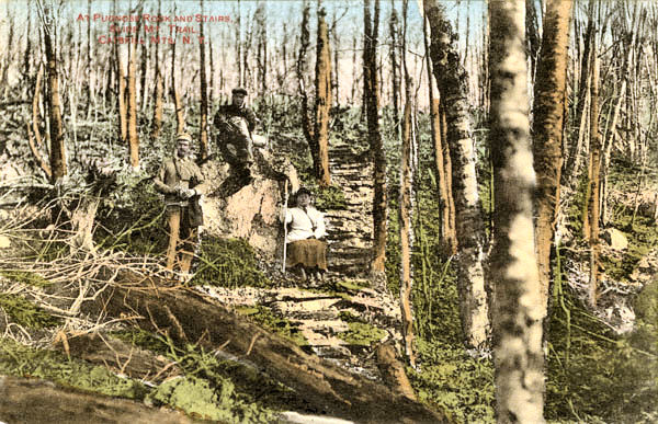 Postcard view of rock & stairs in Catskills, New York. Image is of a postcard from original uploader's collection.